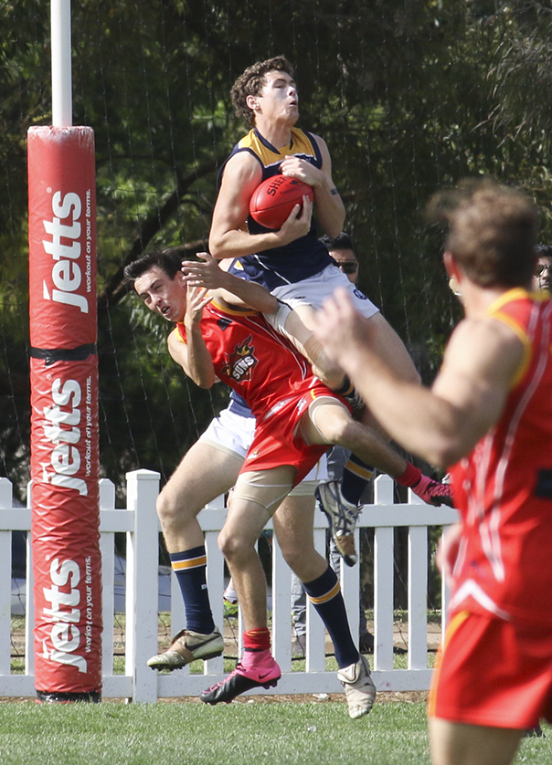 Australian rules footballer takes a spectacular mark